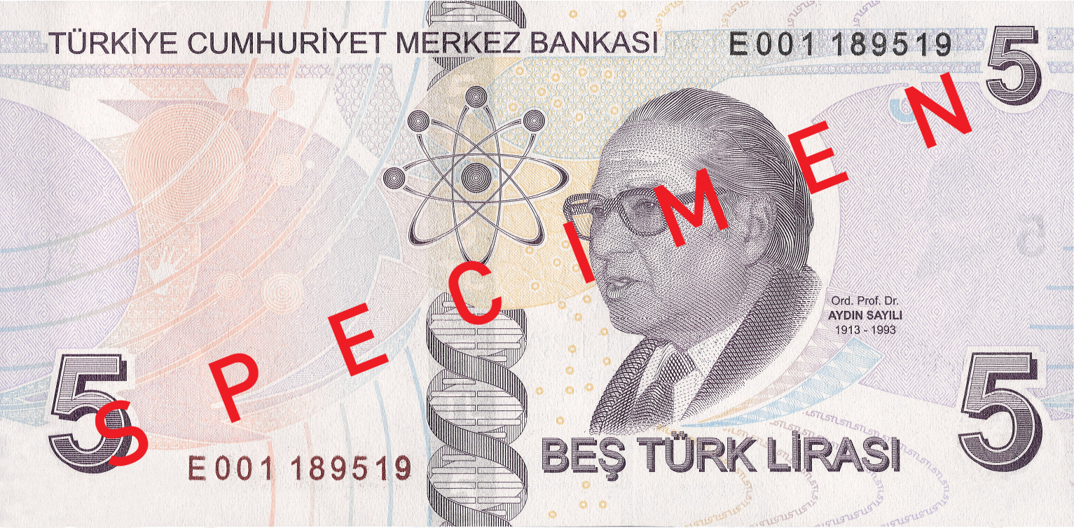 Reverse of 5-II Turkish Lira